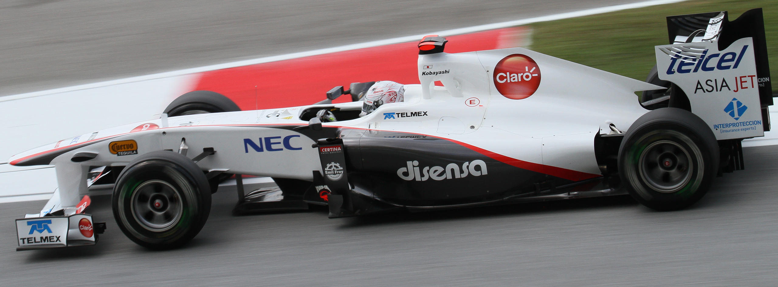 Formula One 2011 Rd.2 Malaysian GP: Kamui Kobayashi (Sauber) during the second practice session on Friday.